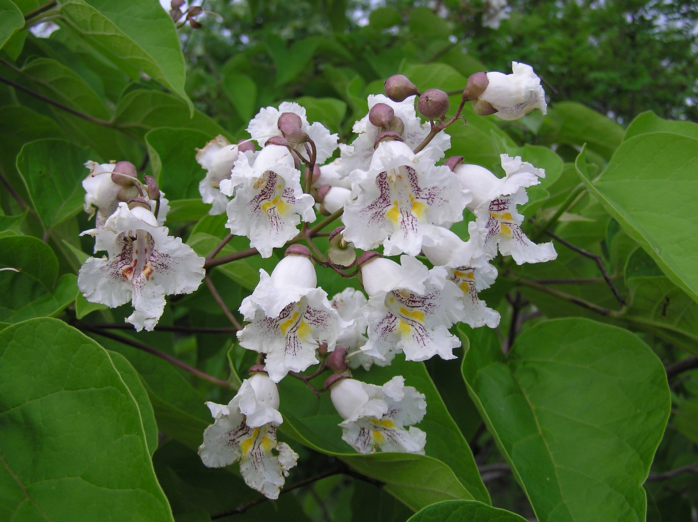 Inflorescence of Southern Сatalpa (Catalpa bignonioides). Saratov city, Russia.